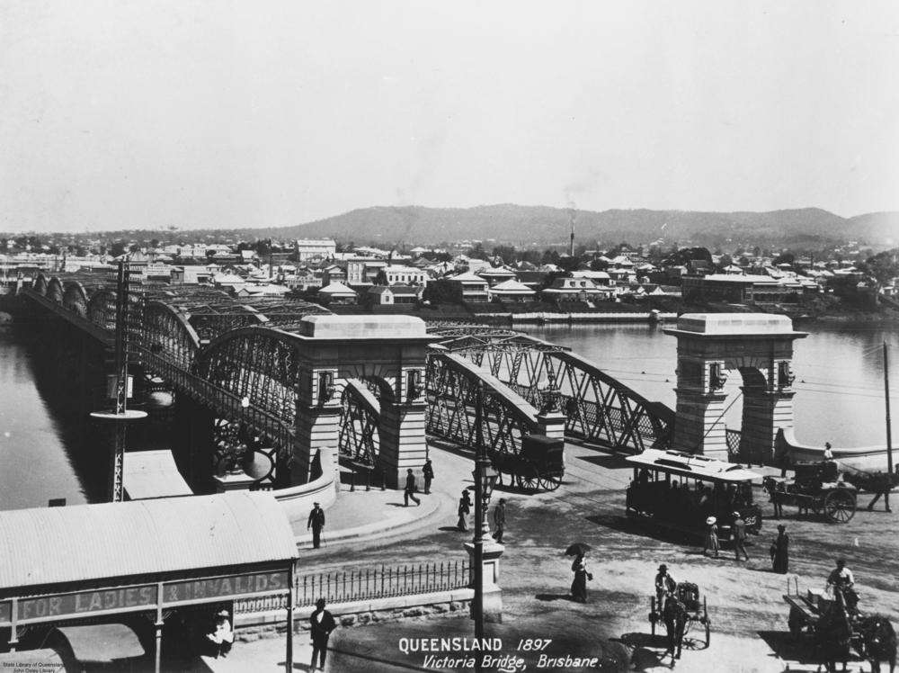 Image shows the second permanent Victoria Bridge, looking towards South Brisbane, in 1897. An electric tram can be seen approaching the bridge. Caption on photograph: Queensland 1897, Victoria Bridge, Brisbane.